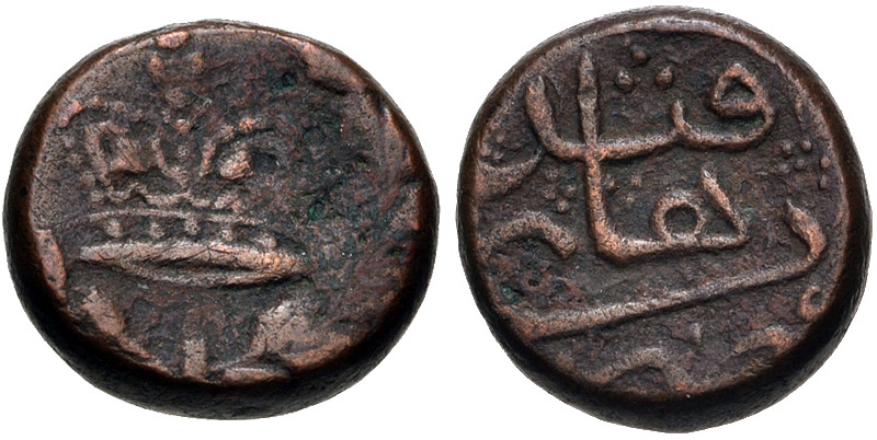 AFGHANISTAN, Second Anglo-Afghan War. Occupation of Qandahar. AH 1296-1298 / AD 1878-1880. Æ Fulus (14.5mm, 4.81 g, 3h). Qandahar mint. Dated AH [129]6 (AD 1878/9). Crown within wreath / Arabic inscription in four lines. SICA 9, 1080; Spencer-Smith, Crown p. 209, fig. 1; Album 3253 note; KM 94. VF, brown surfaces. Rare. Bears a British crown within wreath on the obverse, and an Arabic inscription in four lines on the reverse. These issues were struck under local authorities who routinely recalled and devalued the coppers. This abusive practice lead to a great variety of types, often featuring various animal or flower motifs. Accordingly, the types on this coin were likely not ordered by the occupation authorities, but rather placed by an opportunistic engraver eager to please the occupiers.